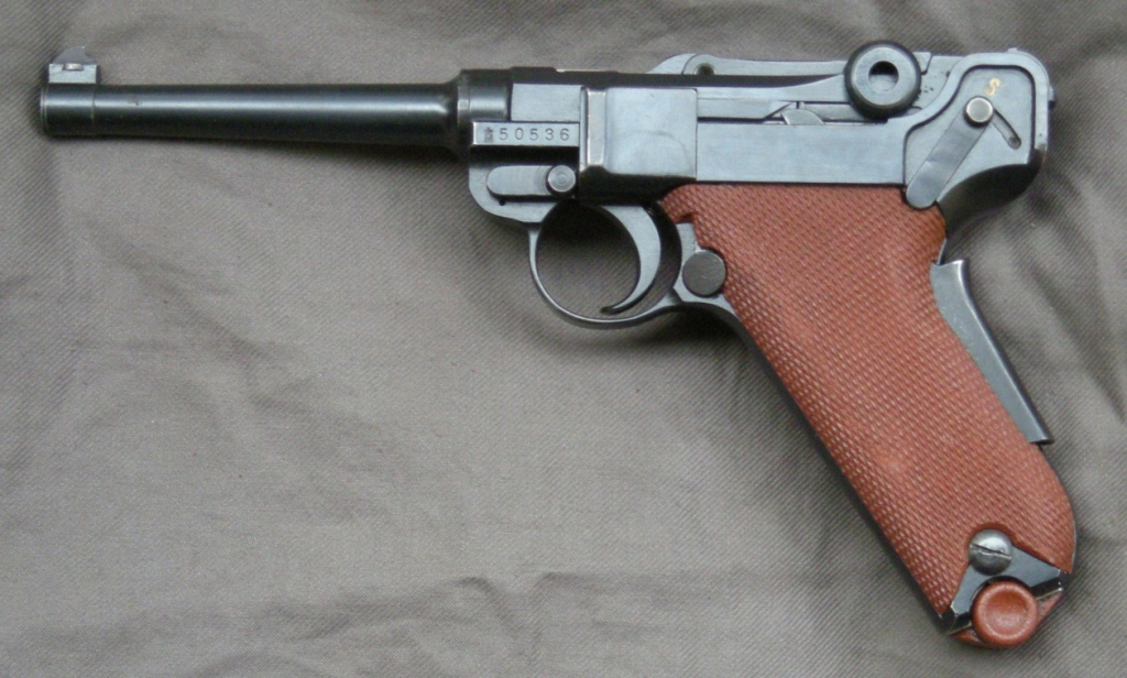 Swiss Luger Model 1906/29, early model, built in 1933 [1]